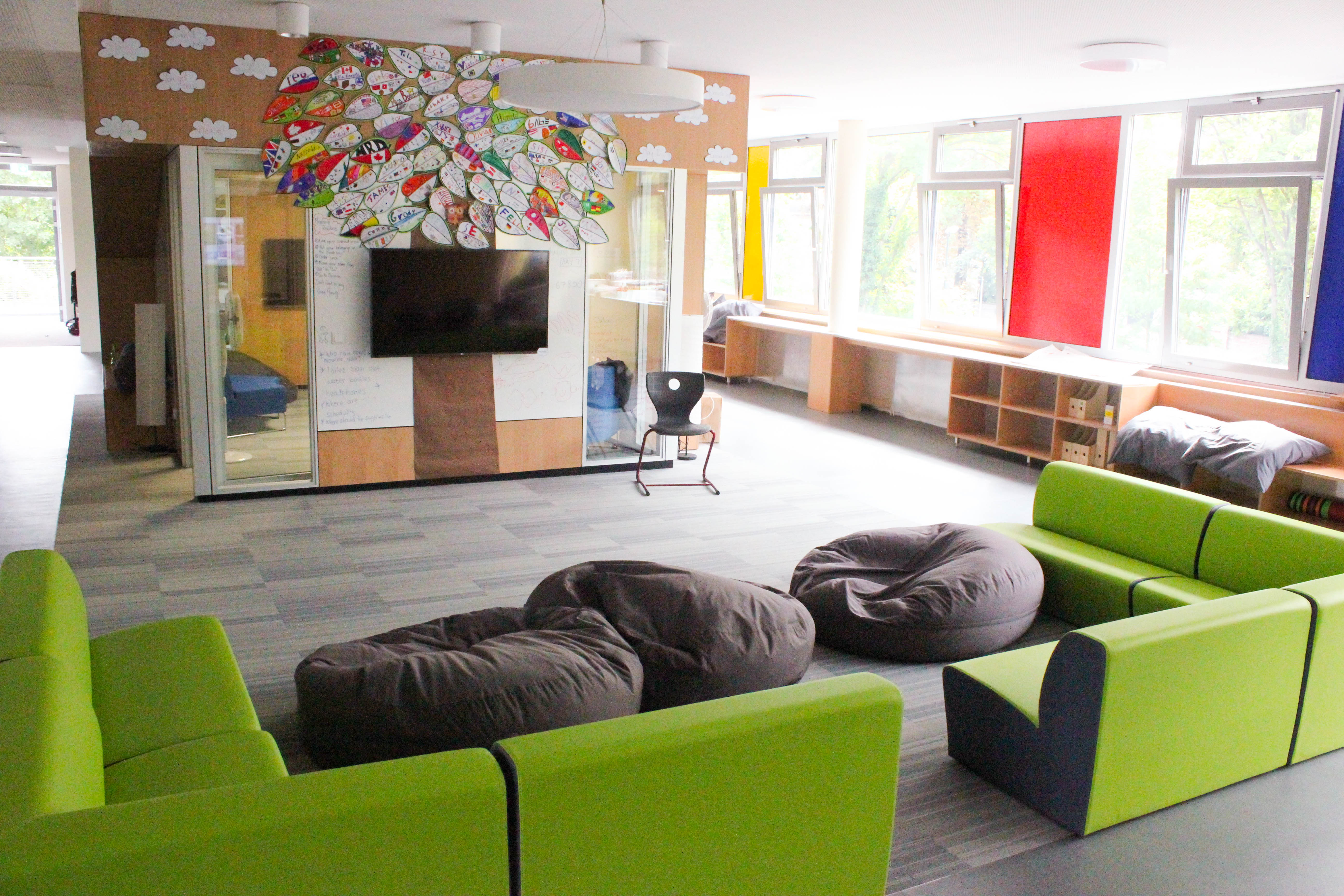 Classroom Space at ISD Elementary School